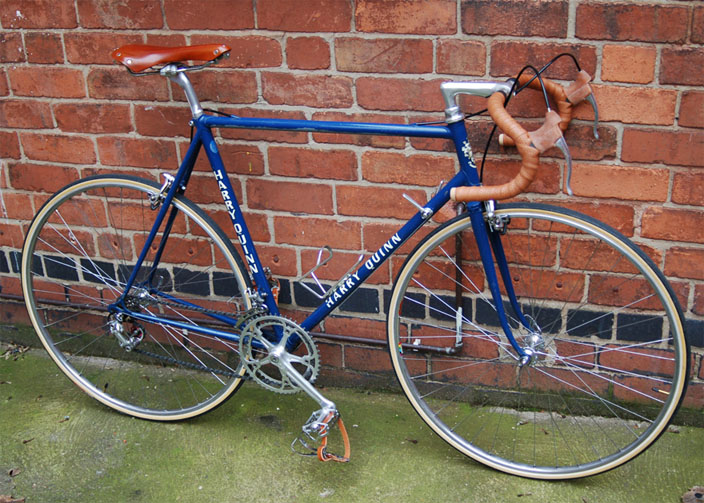 Example of a Harry Quinn bicycle. Bicycle owned by John-Paul Moran, photograph by John-Paul Moran